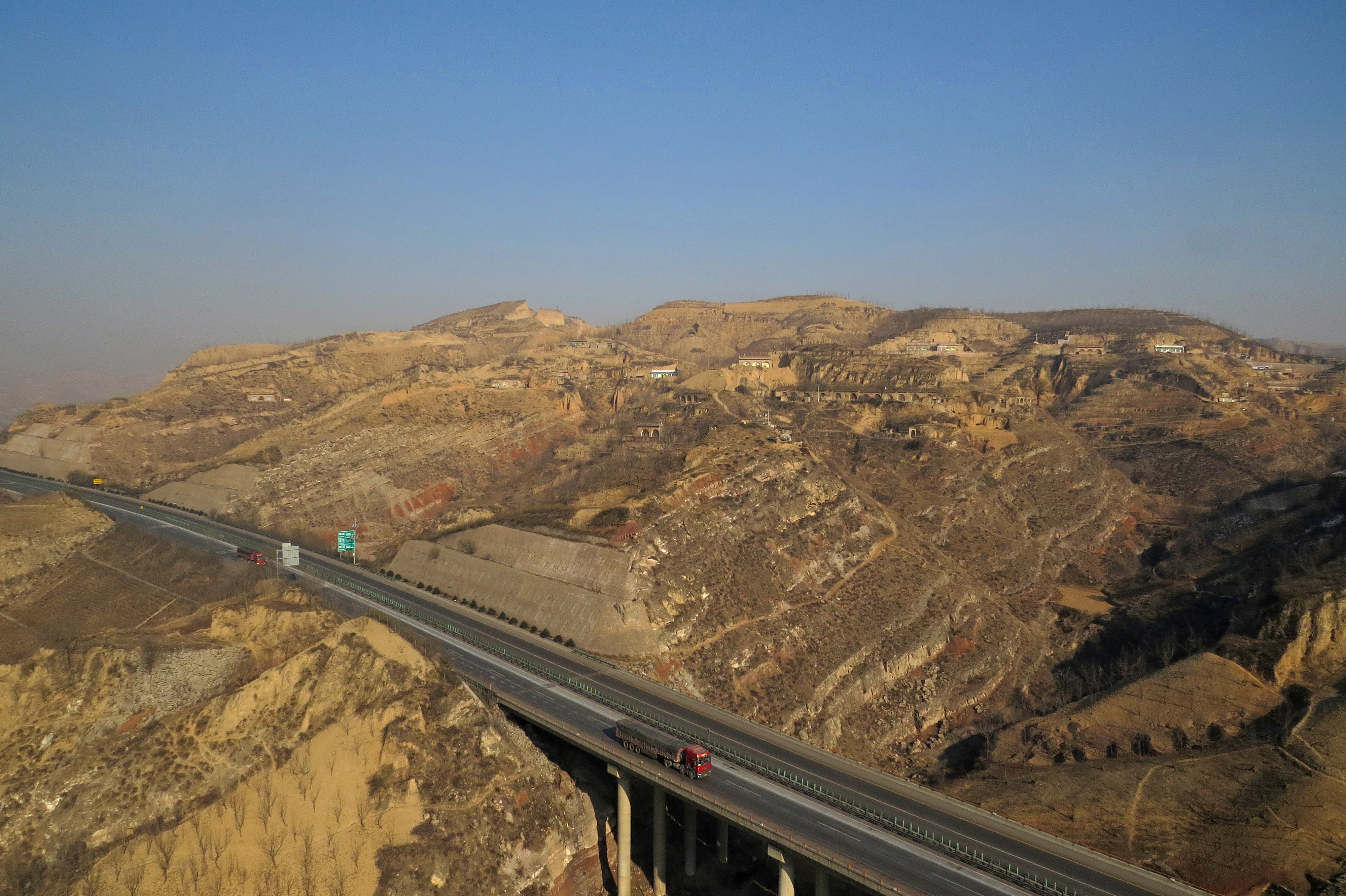 Typical Shaanbei (northern Shaanxi) scheme, seen from Z70 Urumqi-Beijing train via Taiyuan-Zhongwei Railway.